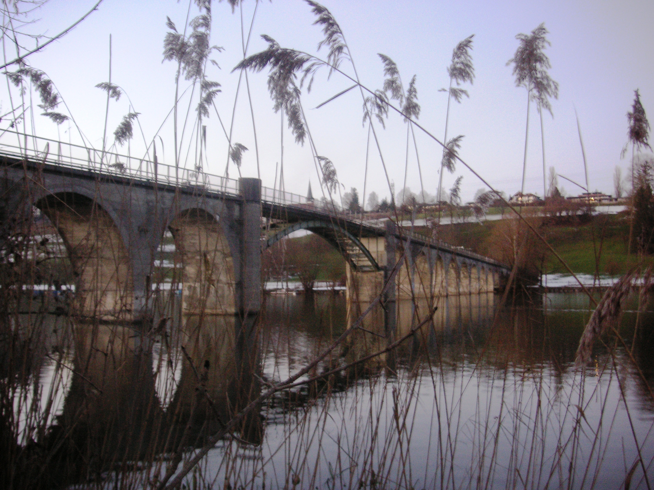 Wohleibrügg, Frauenkappelen/Wohlen bei Bern, Switzerland